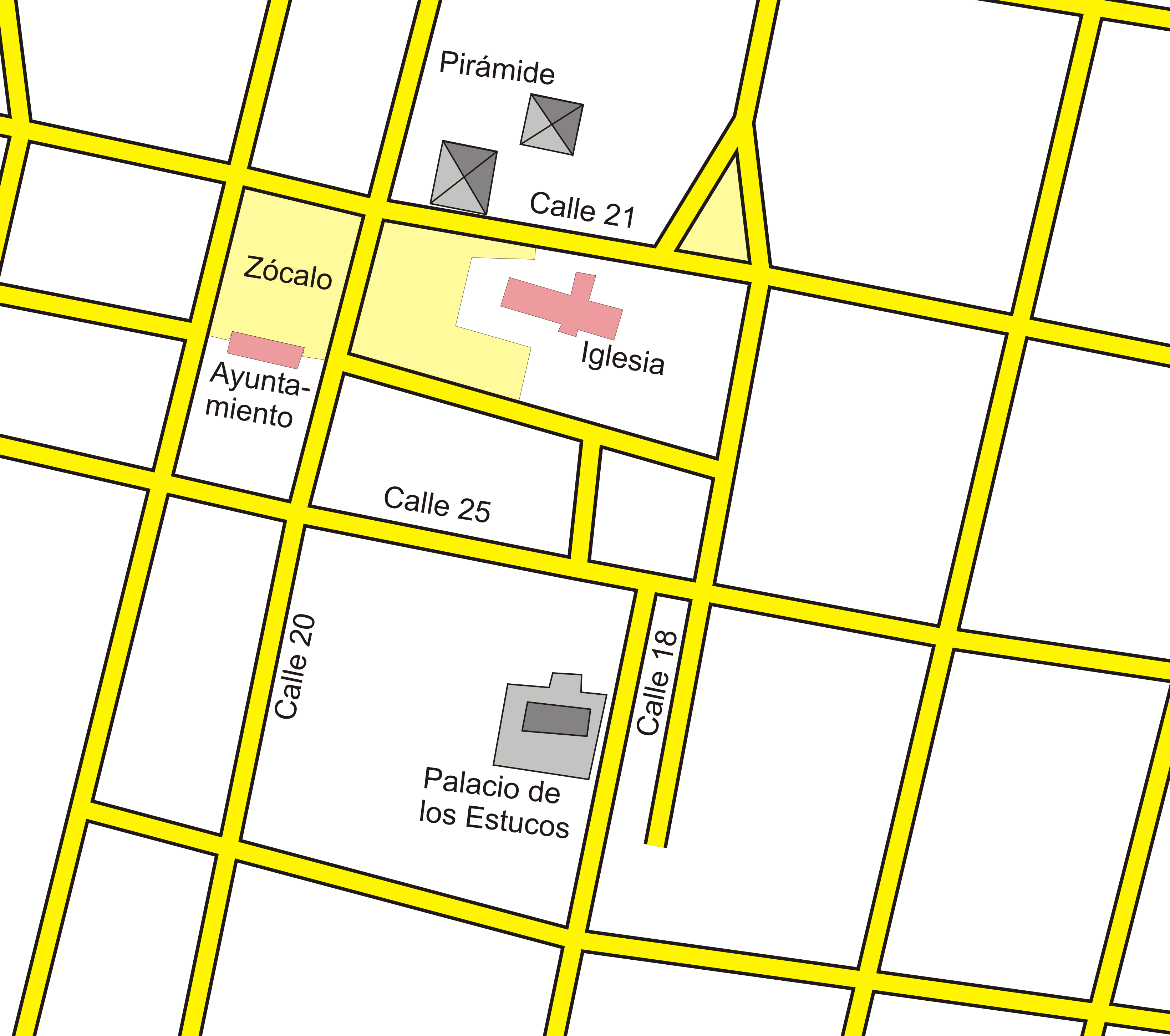 Map of the central part of Acanceh.